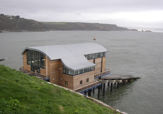 New Lifeboat Station, Tenby. This is on Castle Hill at SN137006.